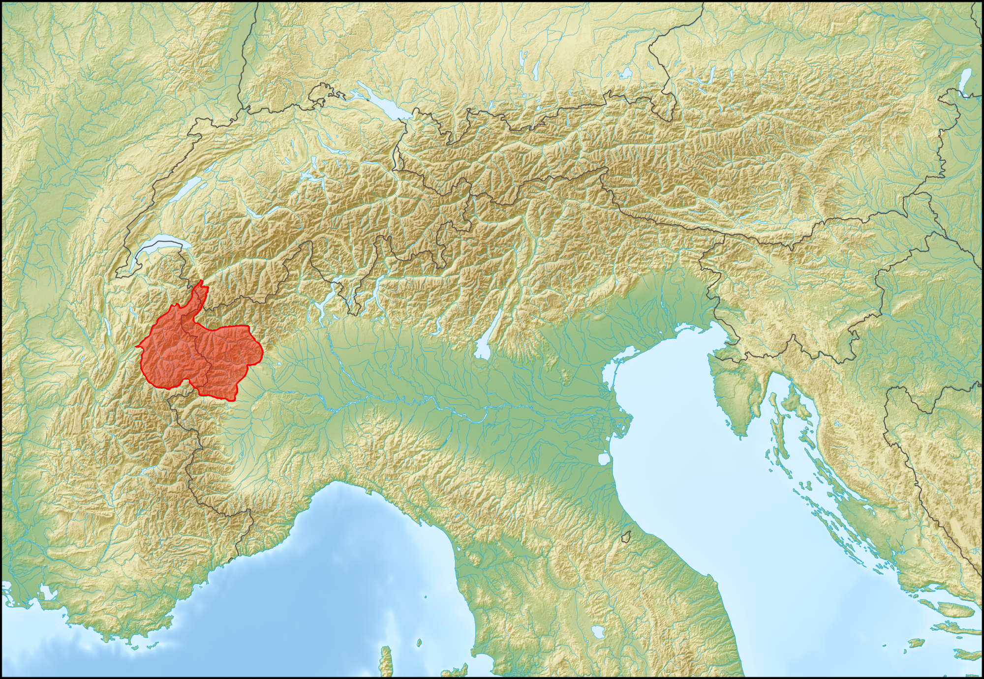 The location (red) of the Graian Alps (SOIUSA I/B-7) in the Alps, according to La “Suddivisione orografica internazionale unificata del Sistema Alpino” (SOIUSA).